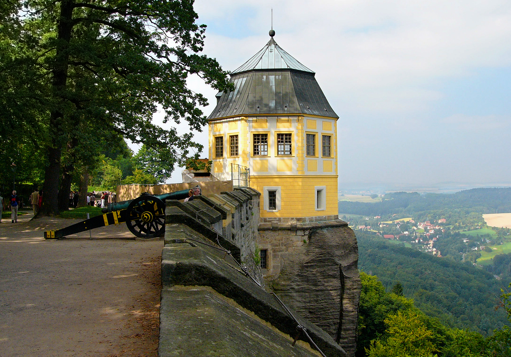 View to the Königstein Fortress in Saxon Switzerland, Saxony, Germany.